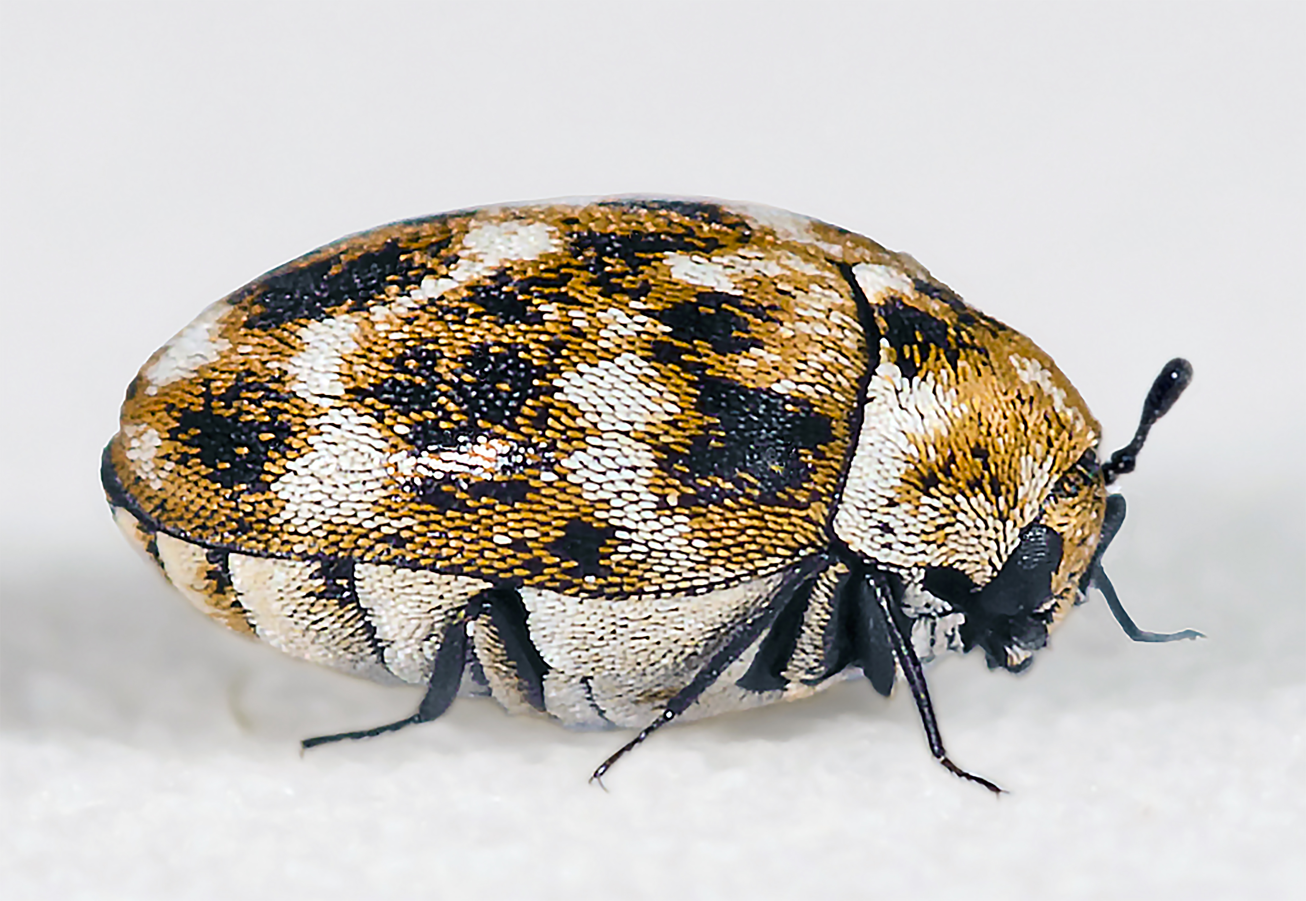 Varied carpet beetle side view (Size :2.5mm)